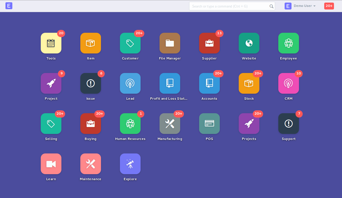 Desk of ERPNext version 7